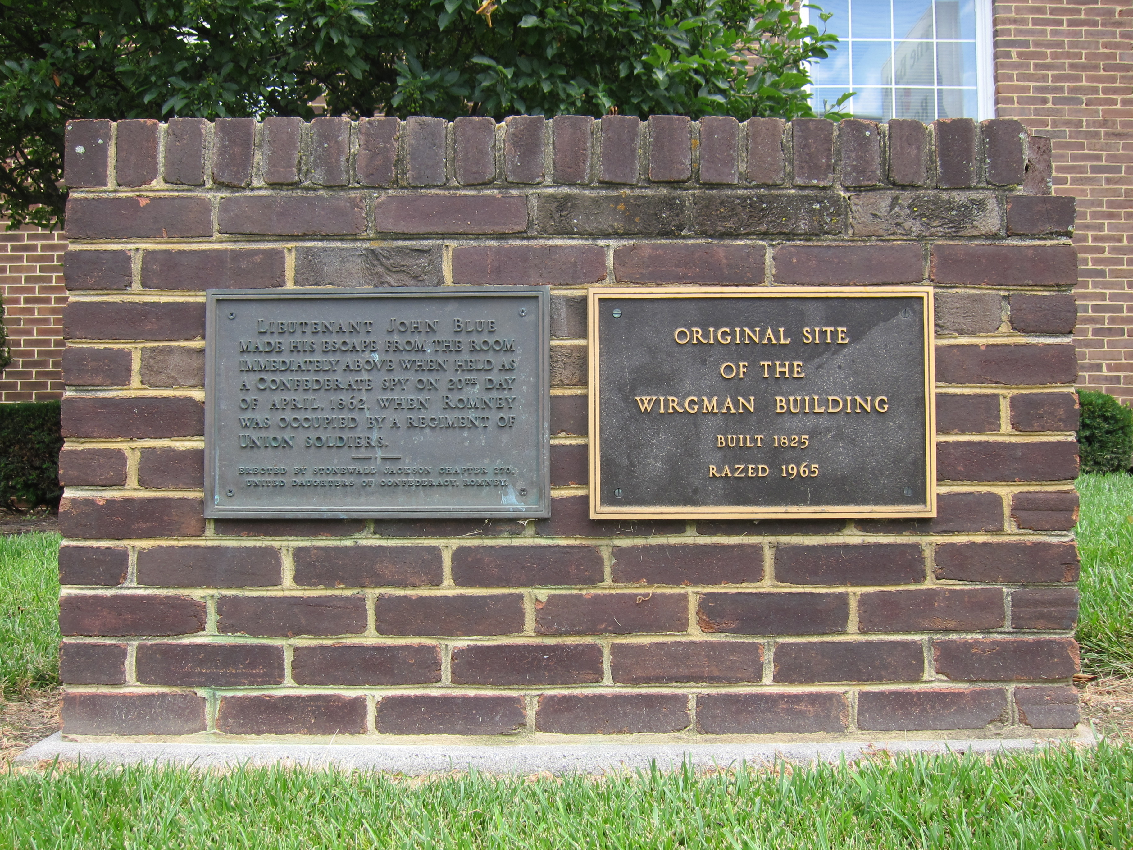 Historical markers commemorating the escape of Confederate States Army Lieutenant John Blue from the Wirgman Building during its use as a military prison in the American Civil War and the construction and demolition dates of the Wirgman Building, which formerly occupied the present Bank of Romney site.